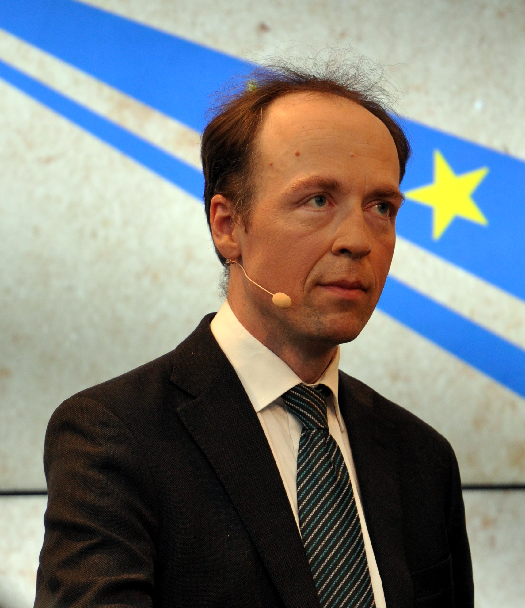 Jussi Halla-aho is a Finnish Slavic linguist, blogger and a politician for the Finns Party.